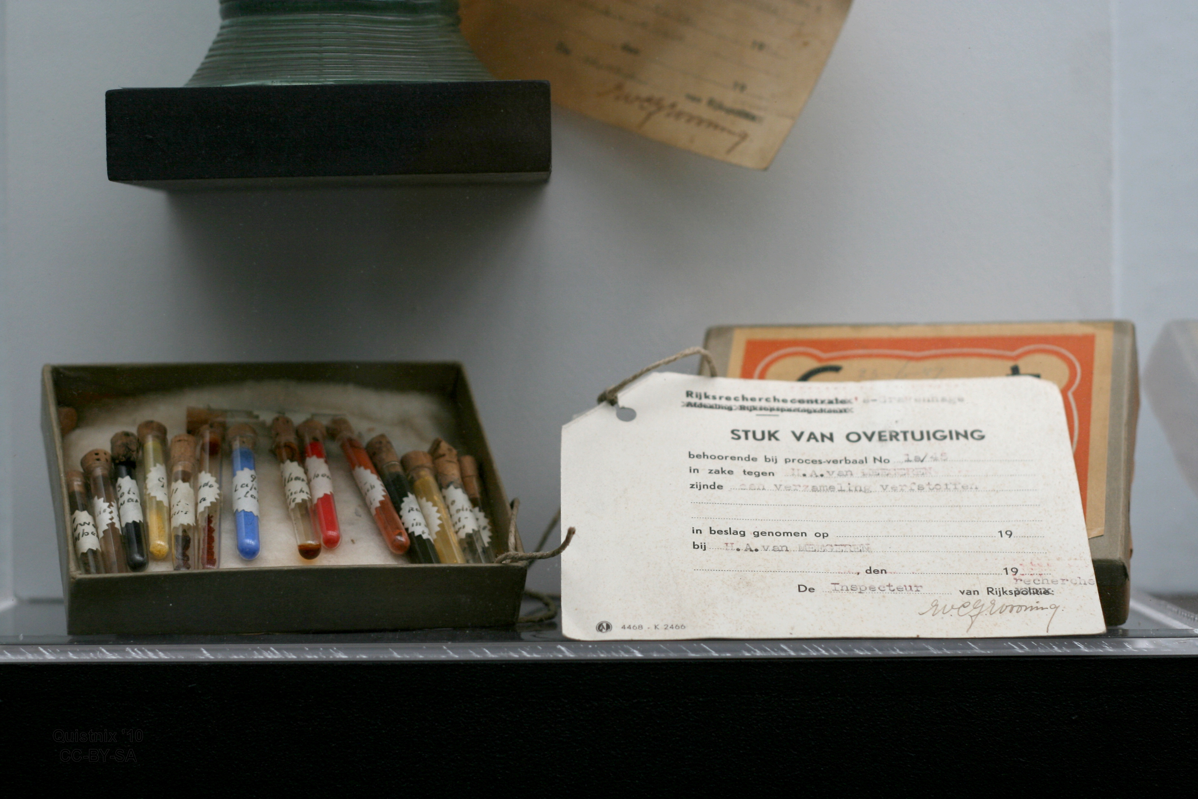 Evidence against Han van Meegeren: a collection of pigments. Photographed in Museum Boijmans van Beuningen, Rotterdam